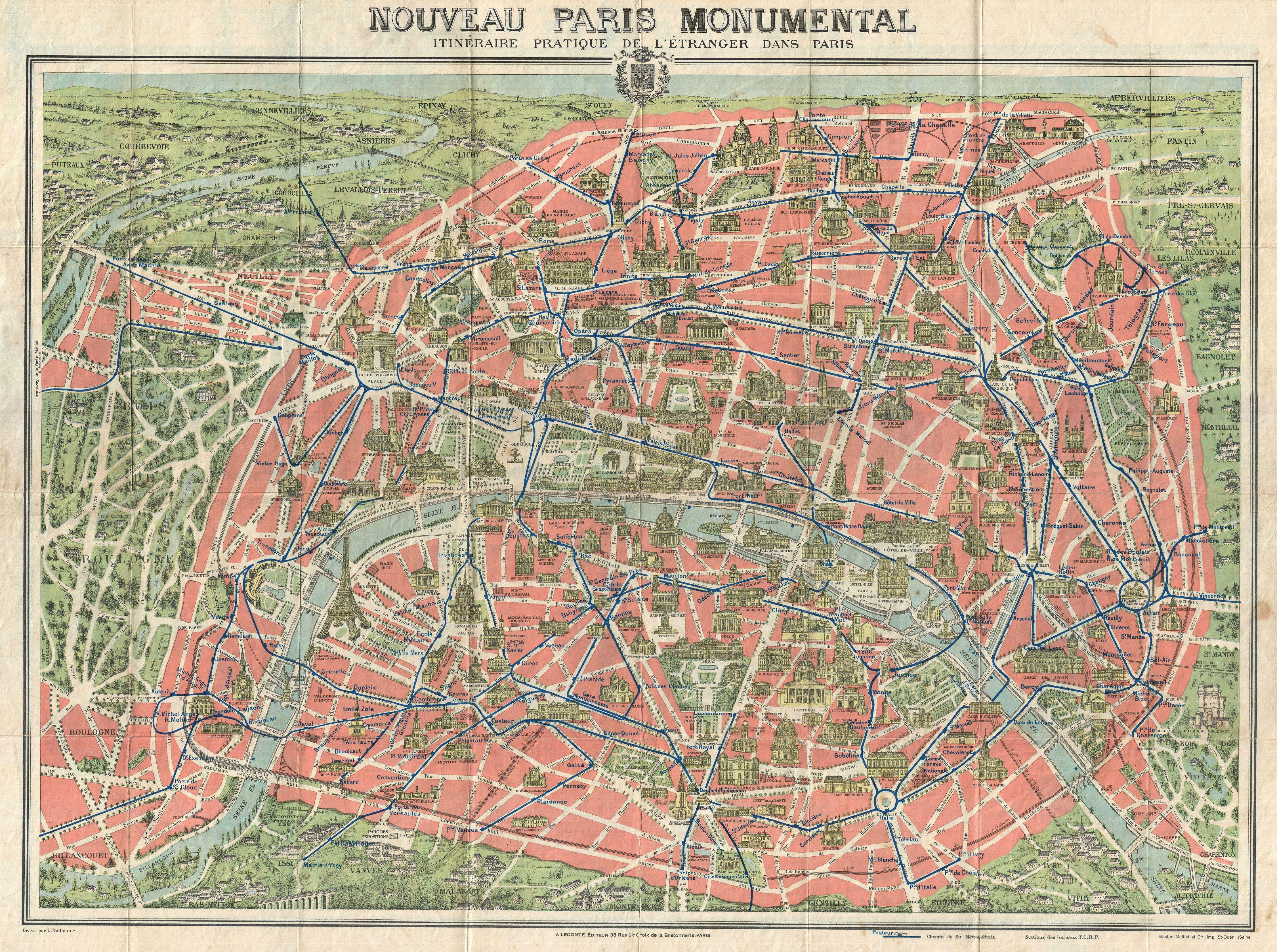 This is an extremely attractive c. 1928 tourist pocket map of Paris, France. Covers the old walled city of Paris and the immediate vicinity. Important buildings are shown in profile, including the Eiffel Tower, the Arc de Triomphe, Sacre-Coeur, the Pantheon, and others. Shows both the train and Metro lines throughout the city. This map was issued in various editions from, roughly 1900 to 1937. Though most examples are undated we can assign an approximate date due to the development of the Metro system and the map's overall style and construction. Attached to original red paper booklet which is itself split at spine. A similar map of the greater Paris environs appears on the verso. Engraved by L. Poulmarie and printed by Gaston Maillet. Published by A. Leconte, of 38 Rue St. Croix de la Bretonnerie, Paris.